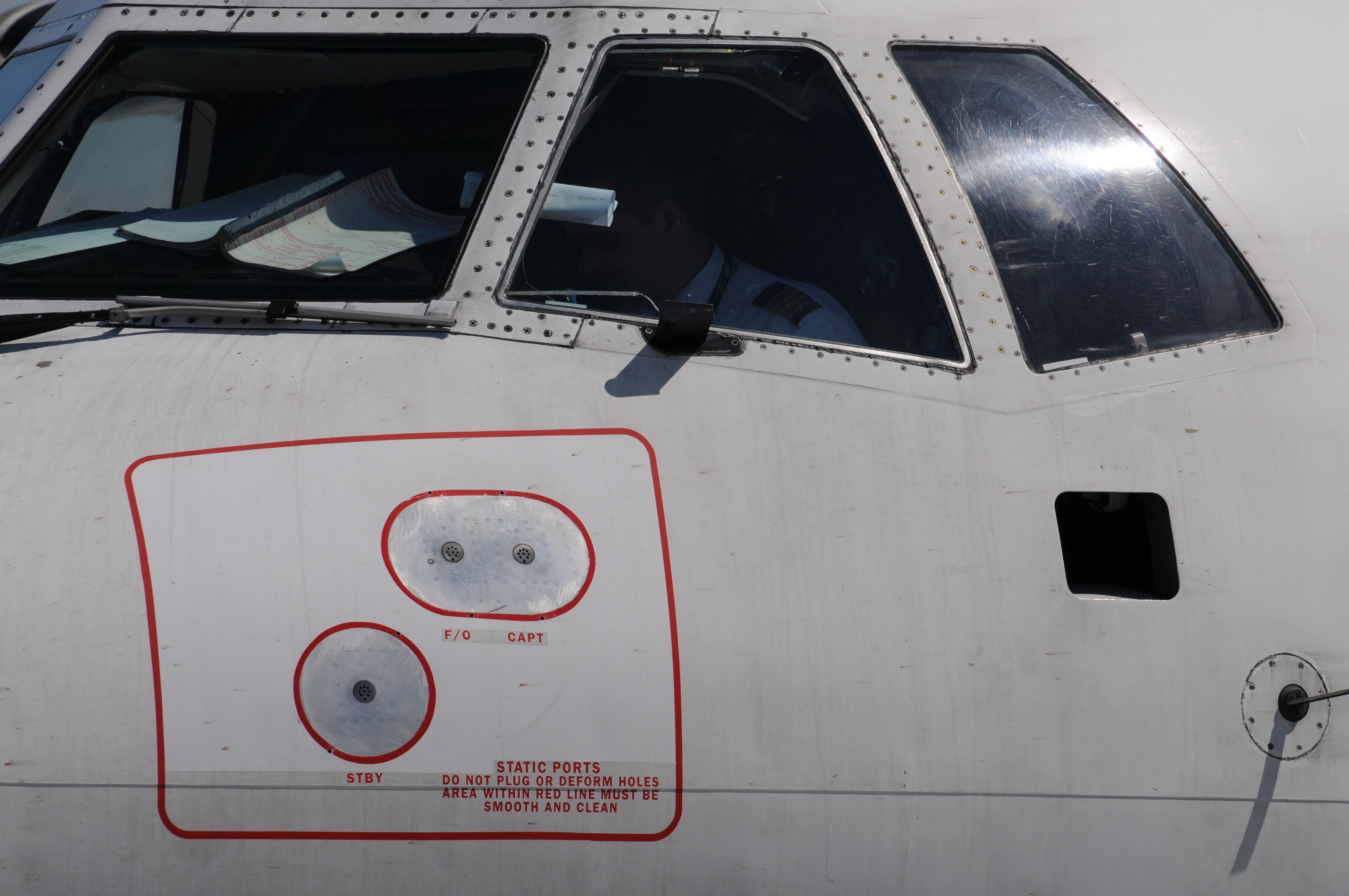 Static ports